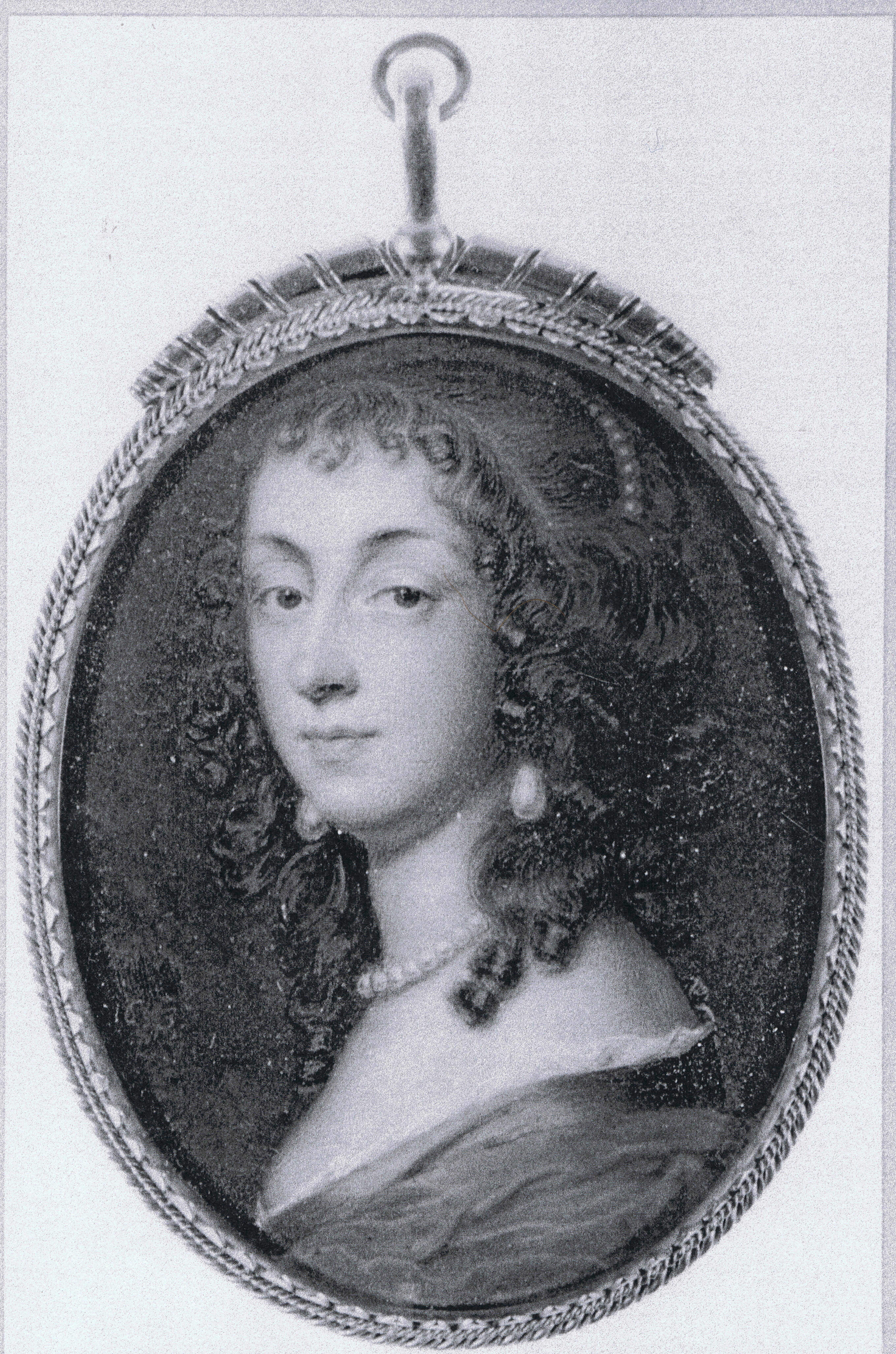 Black & white reproduction of a miniature portrait of Lady Rachel Fane, aka Countess of Bath and/or Countess of Middlesex, (1613-1681). Possibly by Richard Gibson.